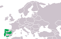 Distribution of Discoglossus galganoi, based on Nöllert/Nöllert: "Die Amphibien Europas"